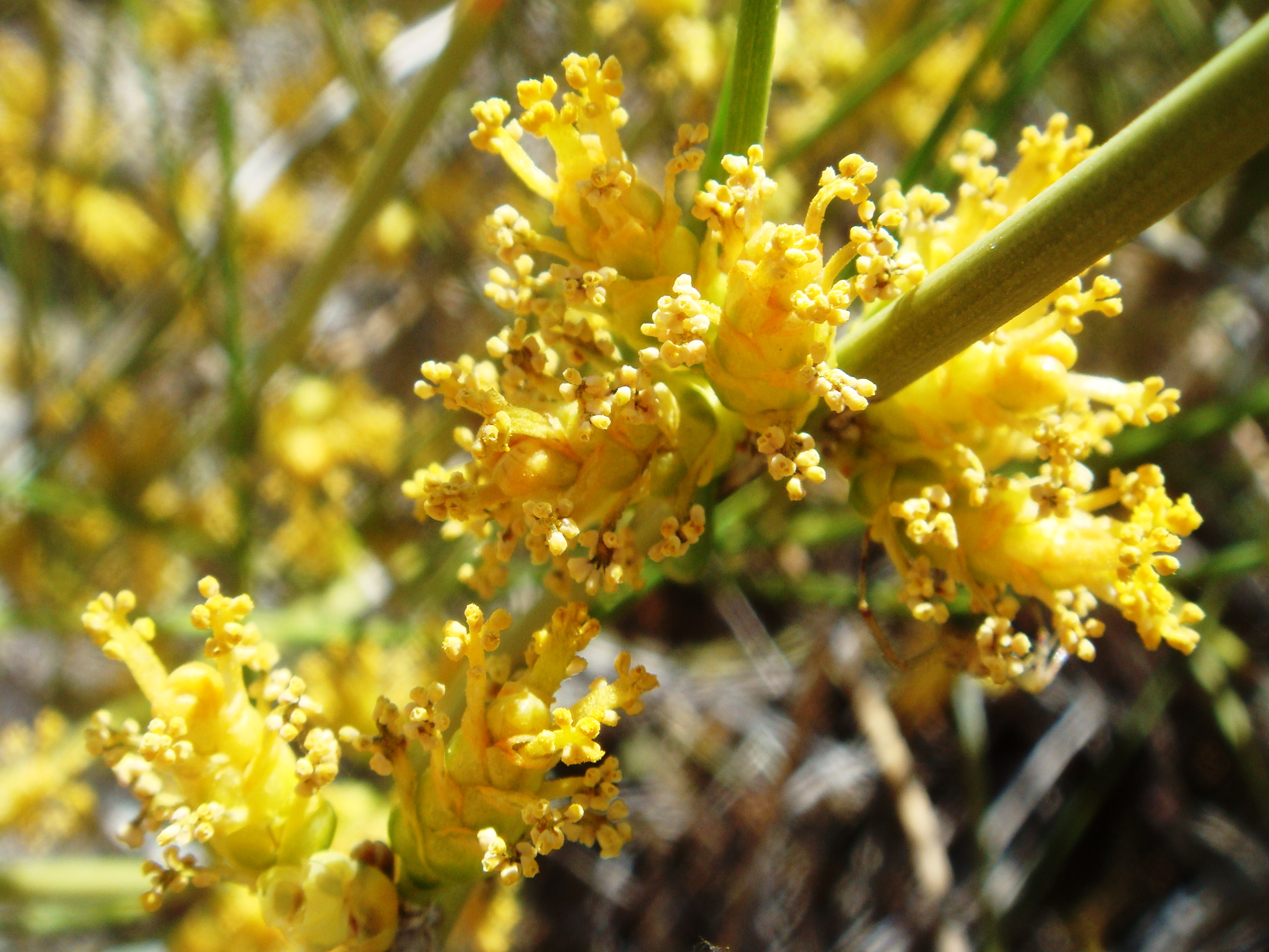 Ephedra aspera, Pima Wash Trail, South Mountain Park, Phoenix, Arizona